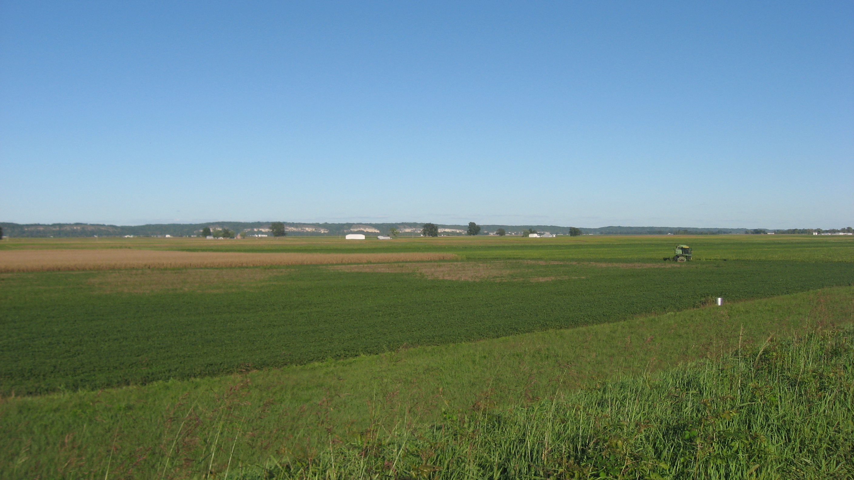 Overview of the western end of the French Colonial Historic District, located in the American Bottom west of Fort de Chartres in the southern extreme of Precinct 13, Monroe County, Illinois, United States. The district comprises roads, archaeological sites, and other features associated with Fort de Chartres and related early French settlement in the region; it is listed on the National Register of Historic Places. Picture is taken from the road atop the Mississippi River levee, just east of Ragtown Road.